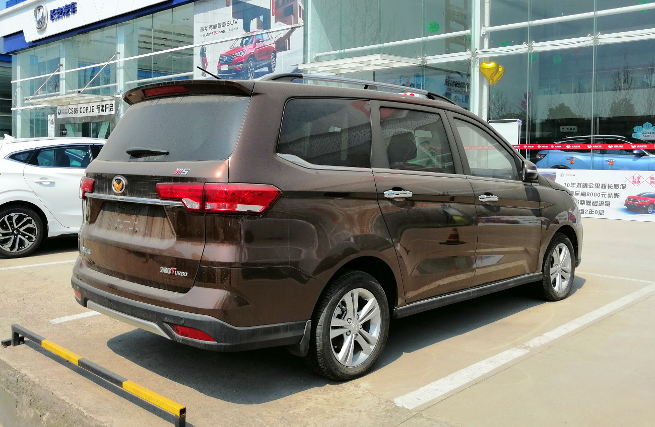 Huansu H5 photographed in Hefei, Anhui province, China.